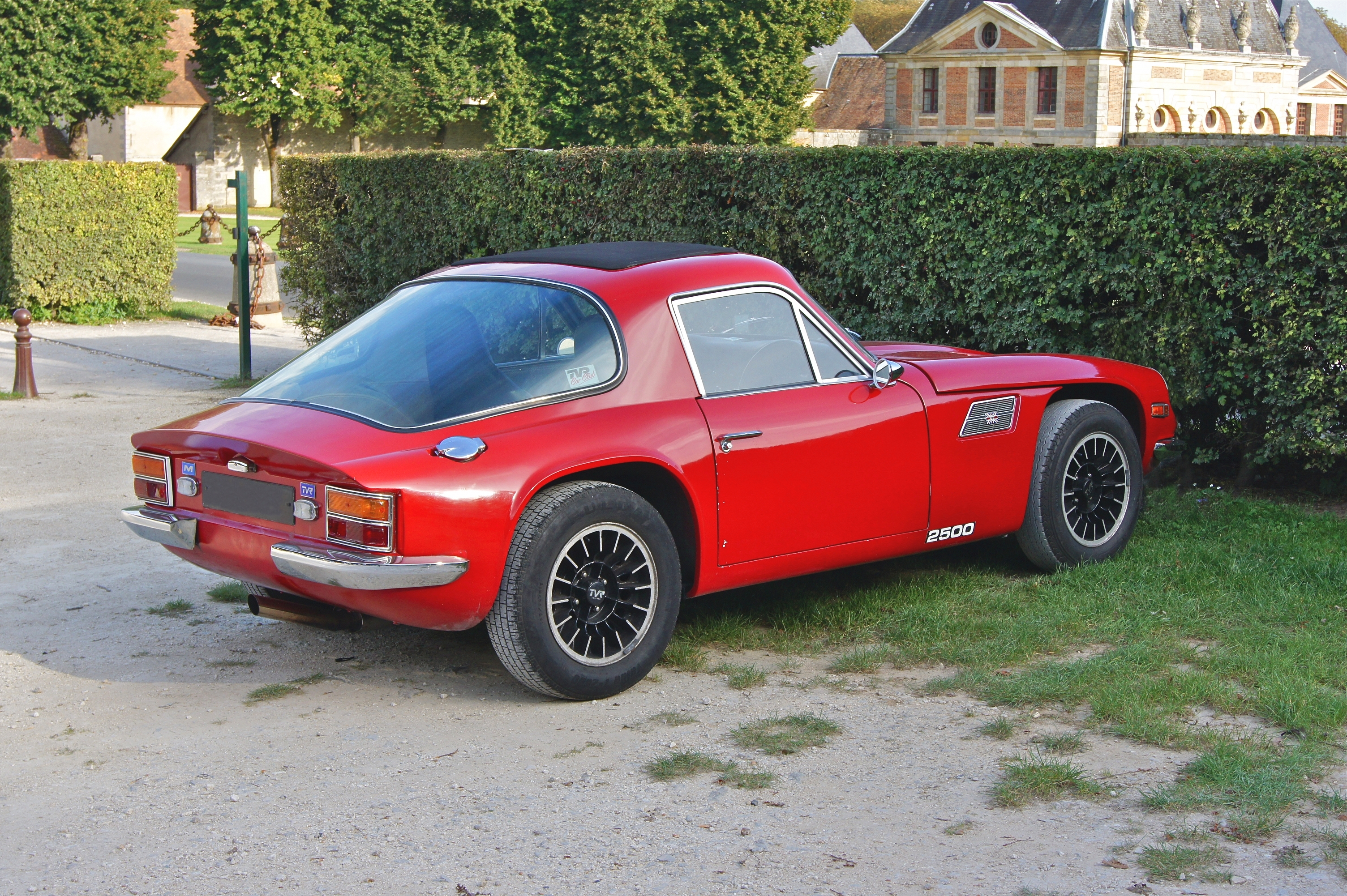 a TVR 2500M, parking at Château de Vaux-le-Vicomte, France.